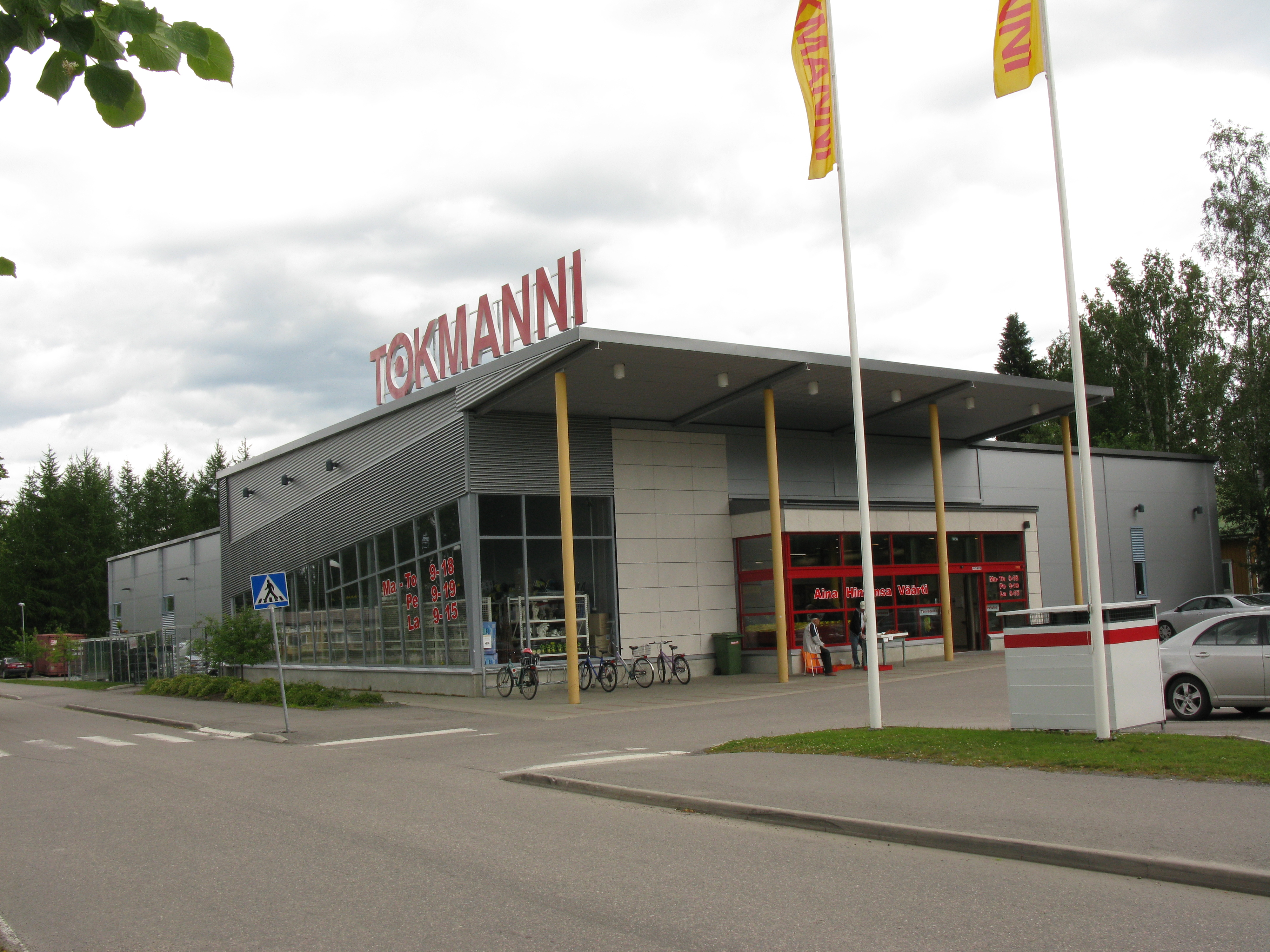 The Tokmanni department store in Parikkala, Finland